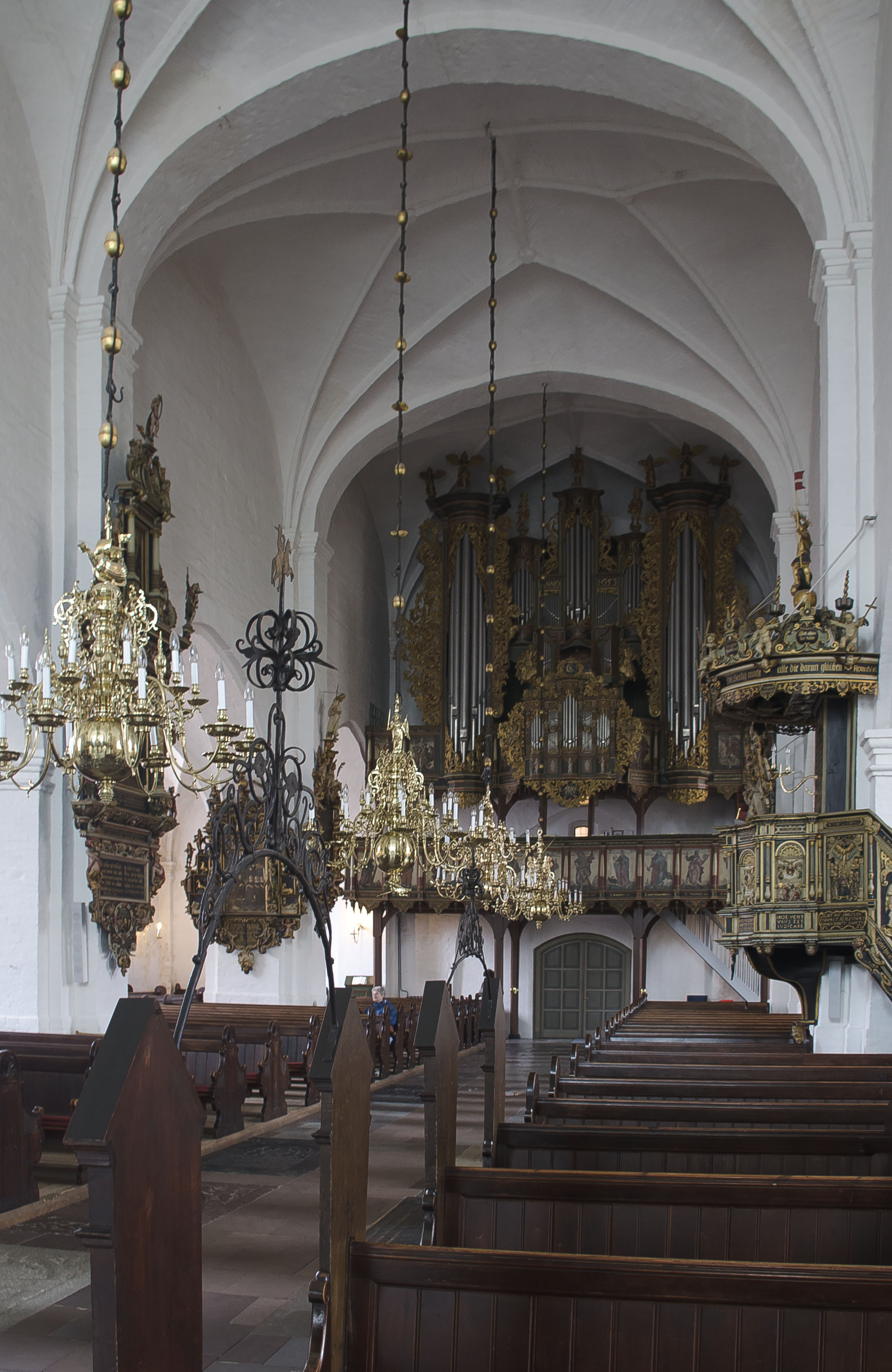 Tønder, Denmark. Christ Church, Interior